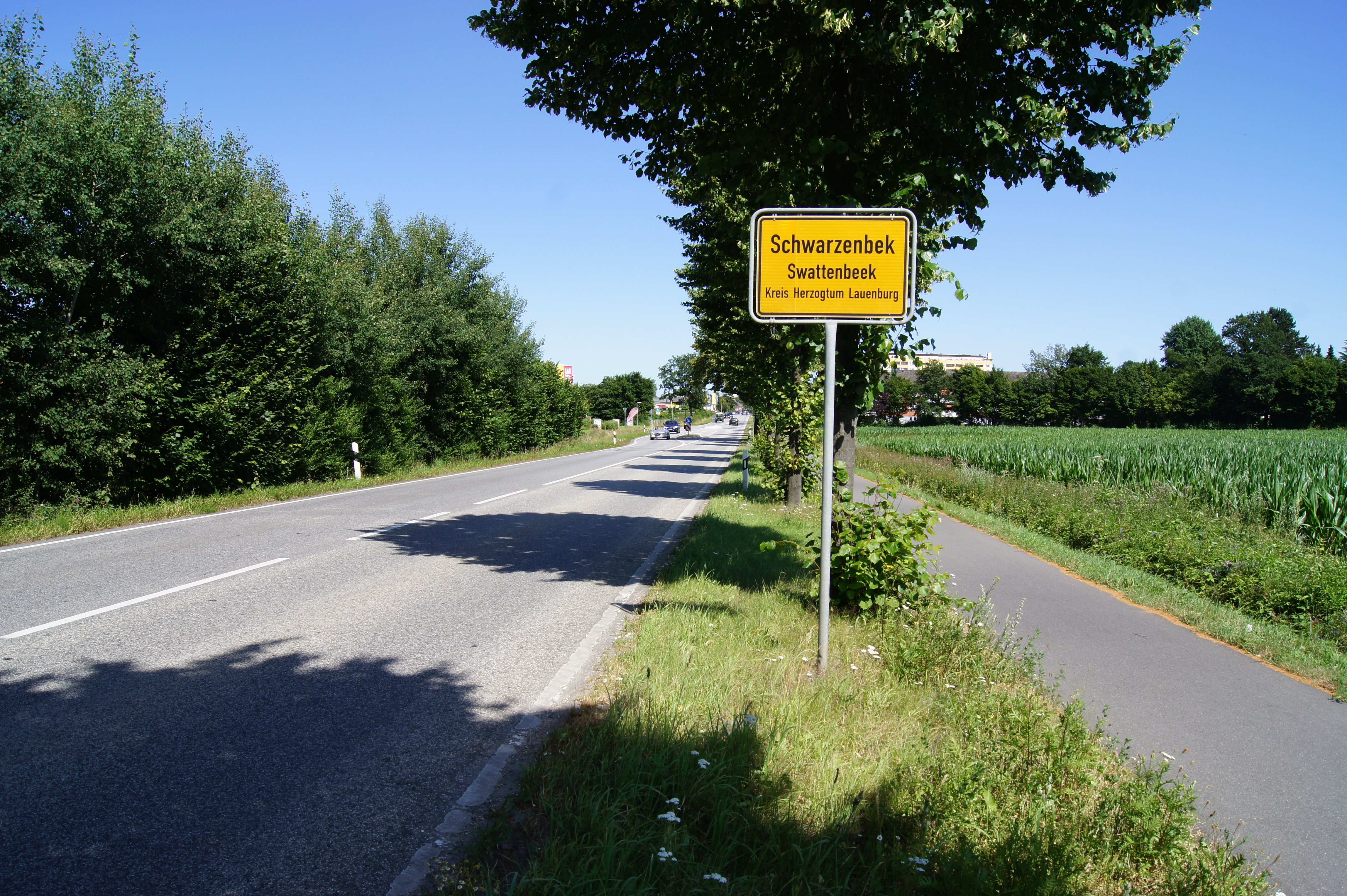 Schwarzenbek, en:: Bilingual Sign